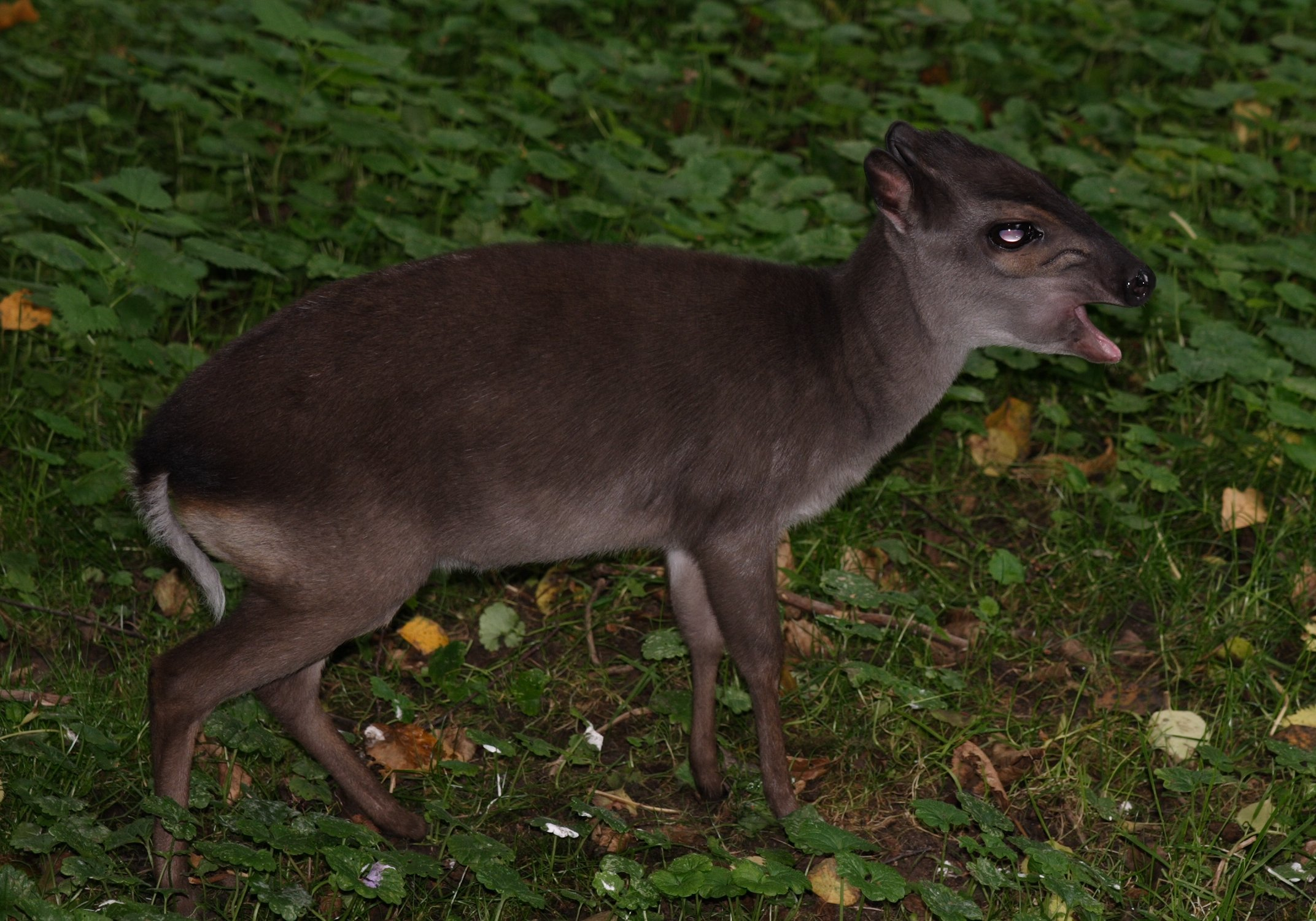 Blauducker (Cephalophus monticola), Zoo Krefeld